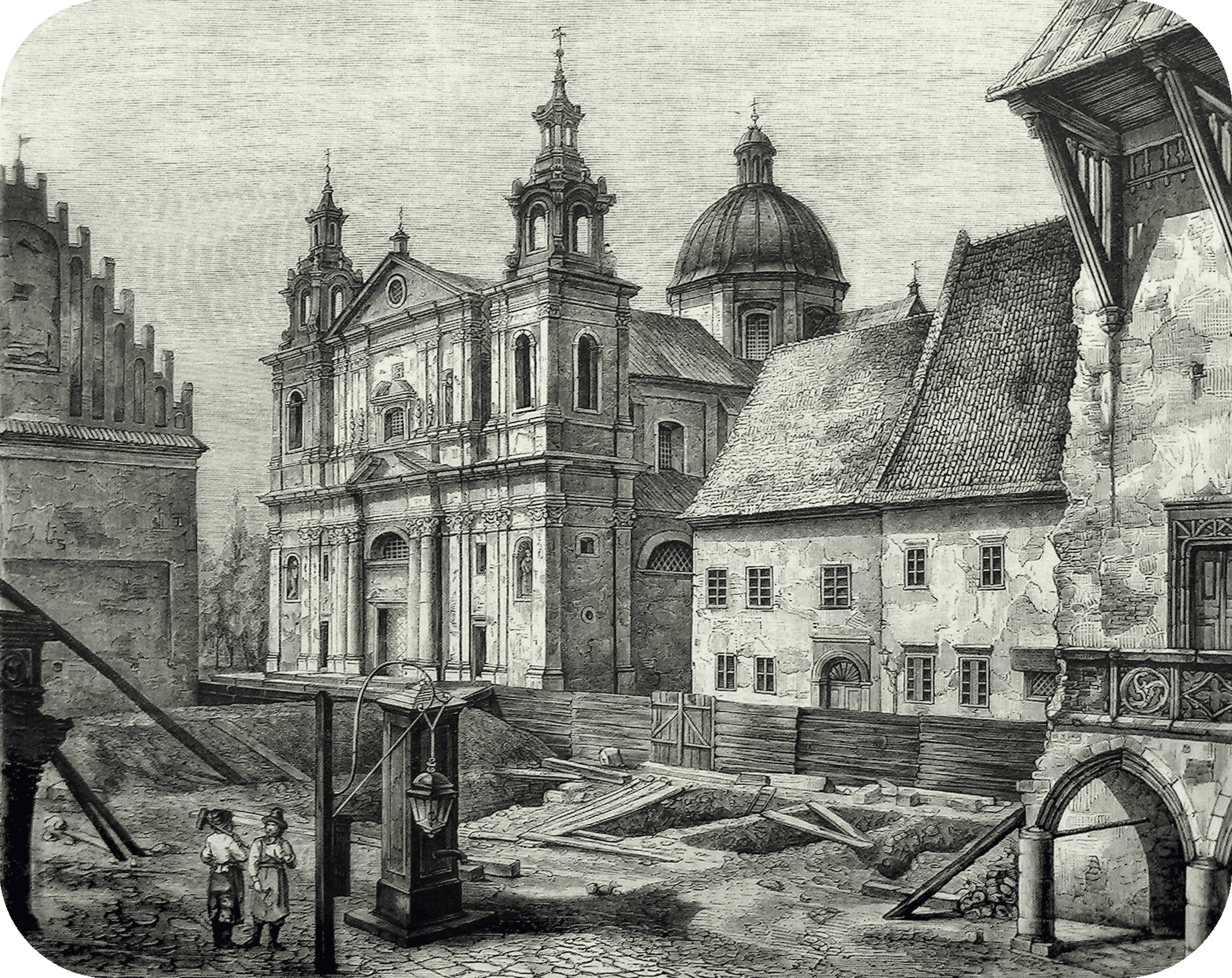 collegiate church of Saint Anne in Cracow